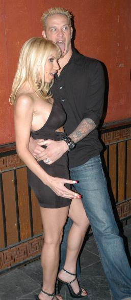 April 5 2007: XRCO Awards 2007.